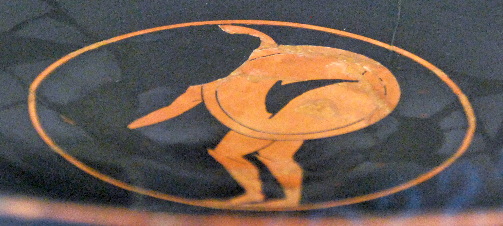 Uploaded Raw material, everybody can work on Names, Categories, Descriptions and so on.. - pictures of descriptions should be deleted after usage.